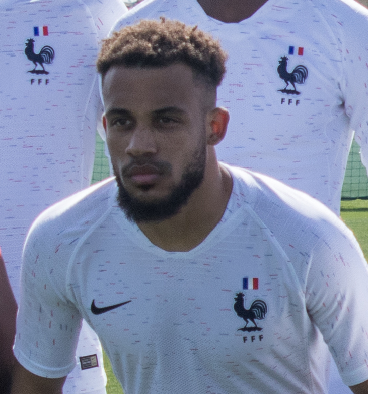 USA U20 v France U20, 22 March 2019